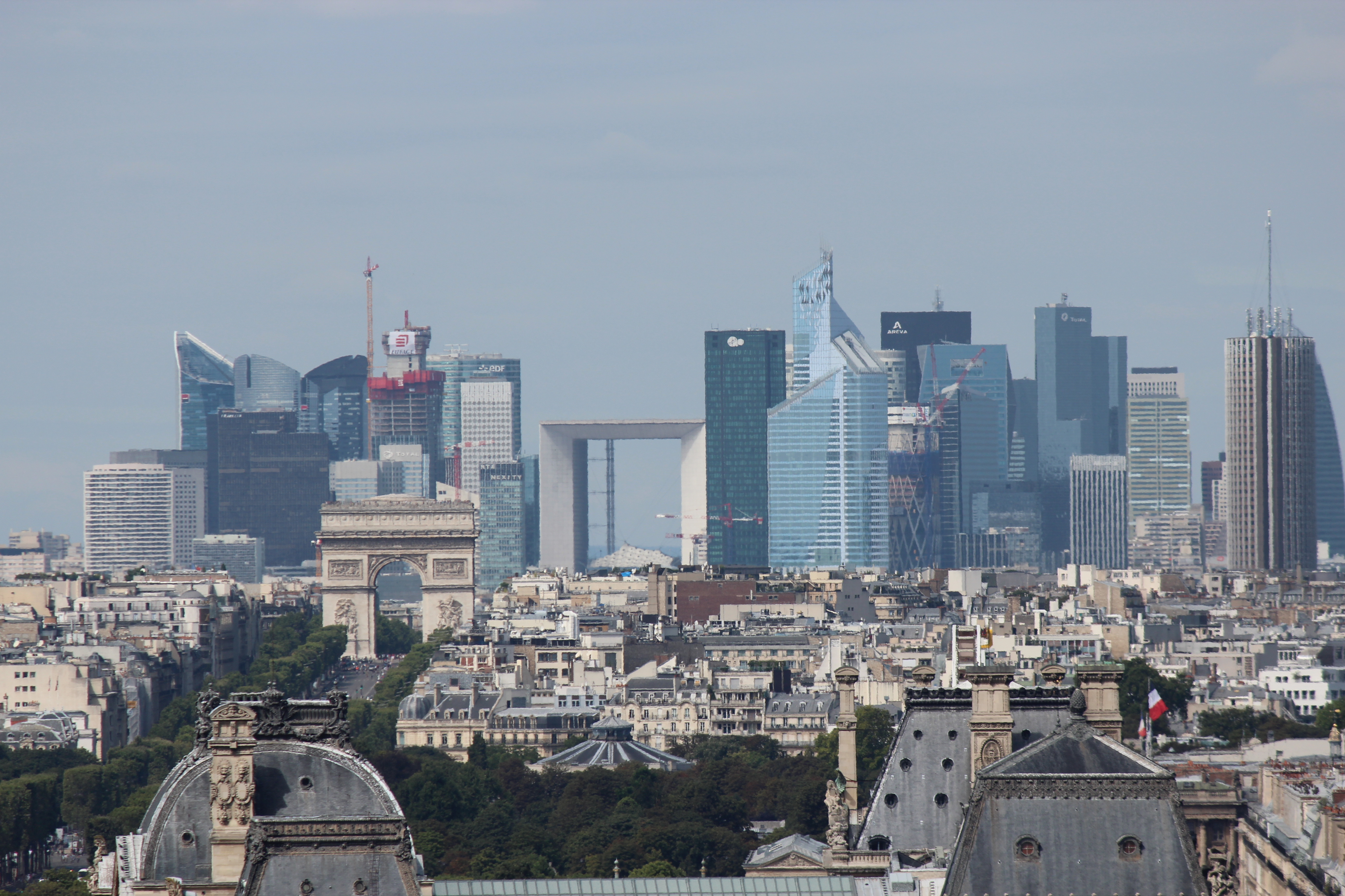 Paris La Défense, seen from Tour Saint Jacques